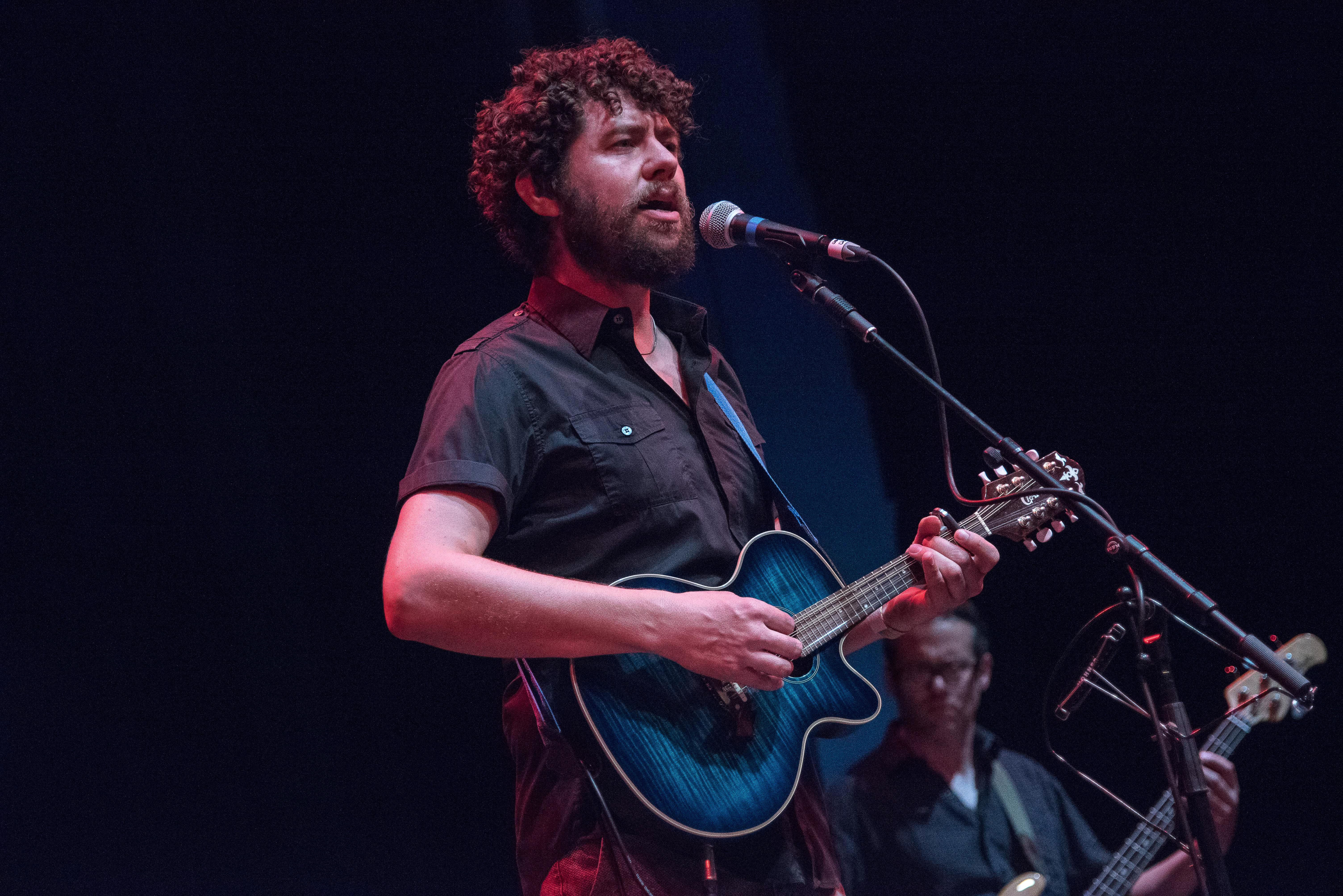 Underneath the Stars festival 2016